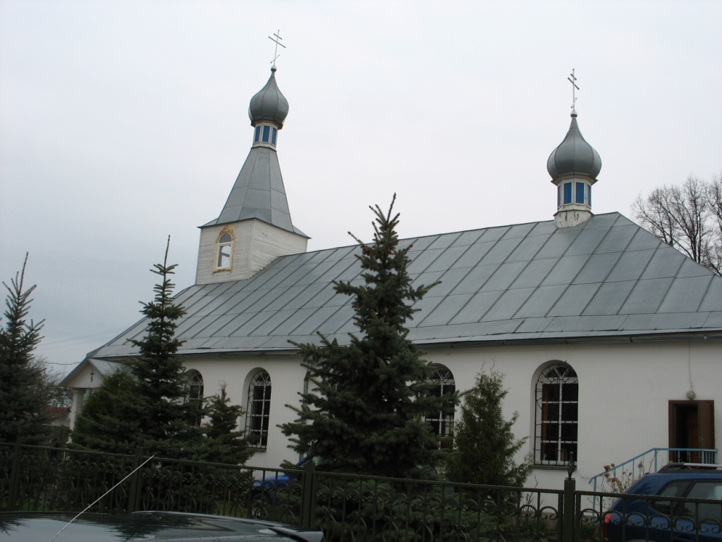 Church of Saint Gregory, Smilavichy, Belarus